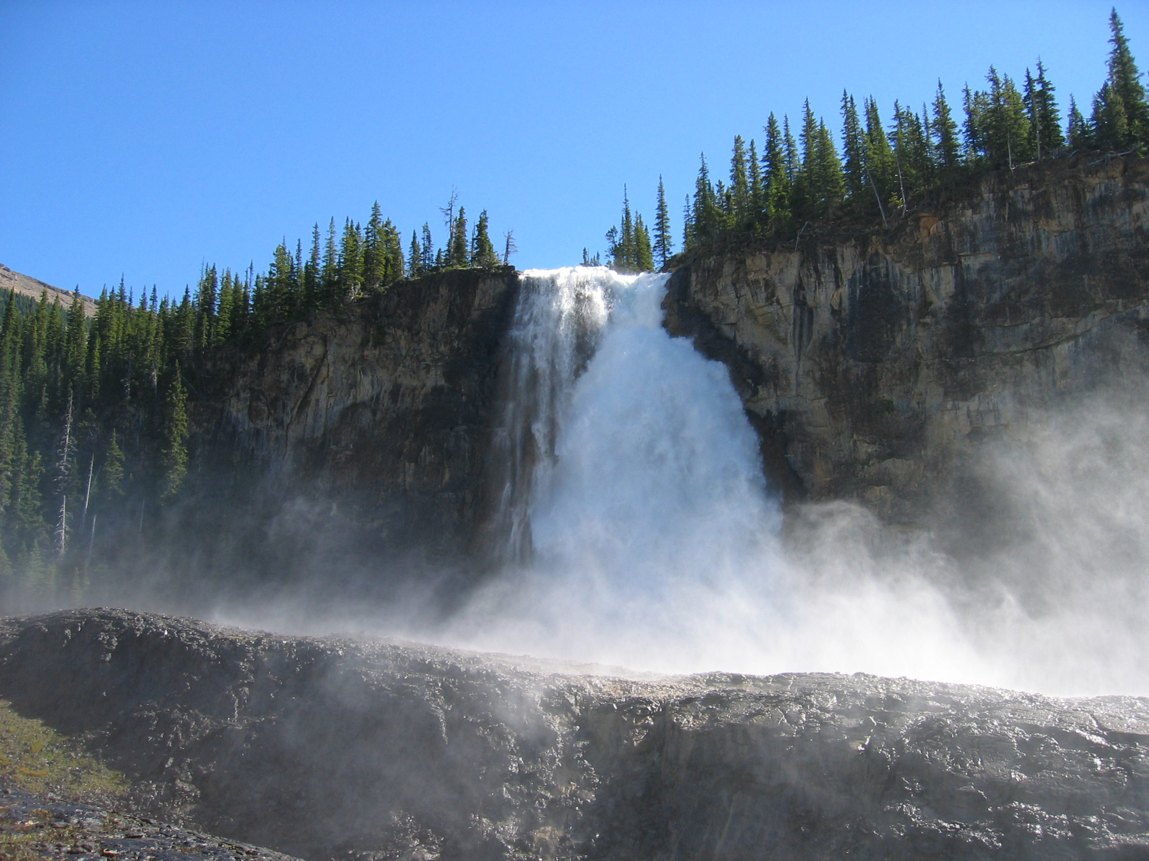 Emperor Falls, British Columbia